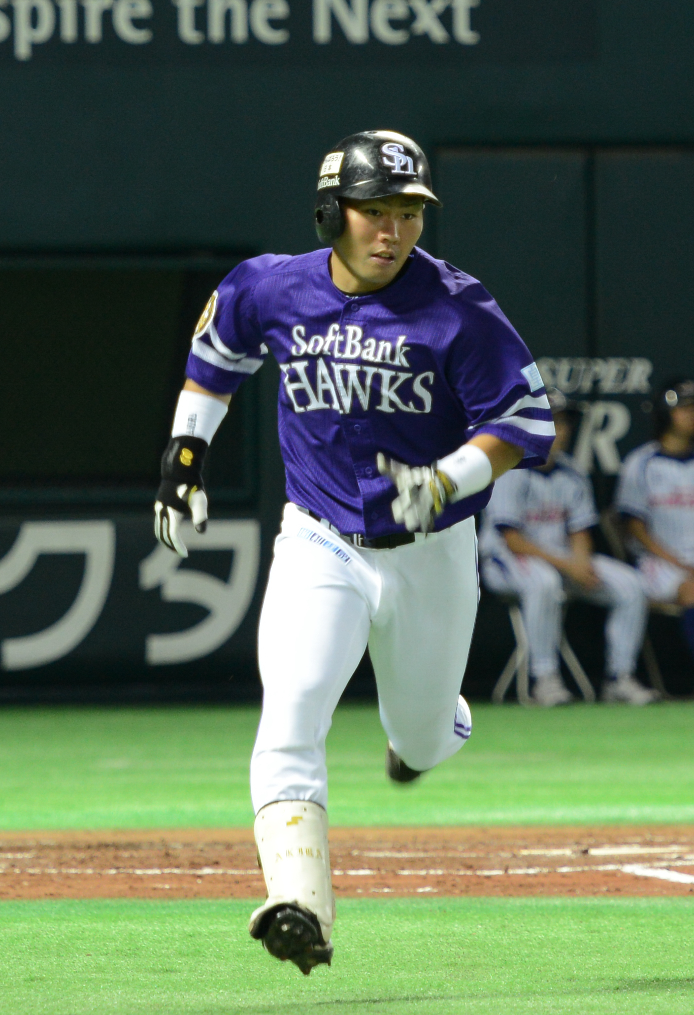 Akira Nakamura, outfielder of the Fukuoka SoftBank Hawks, at Fukuoka Dome.